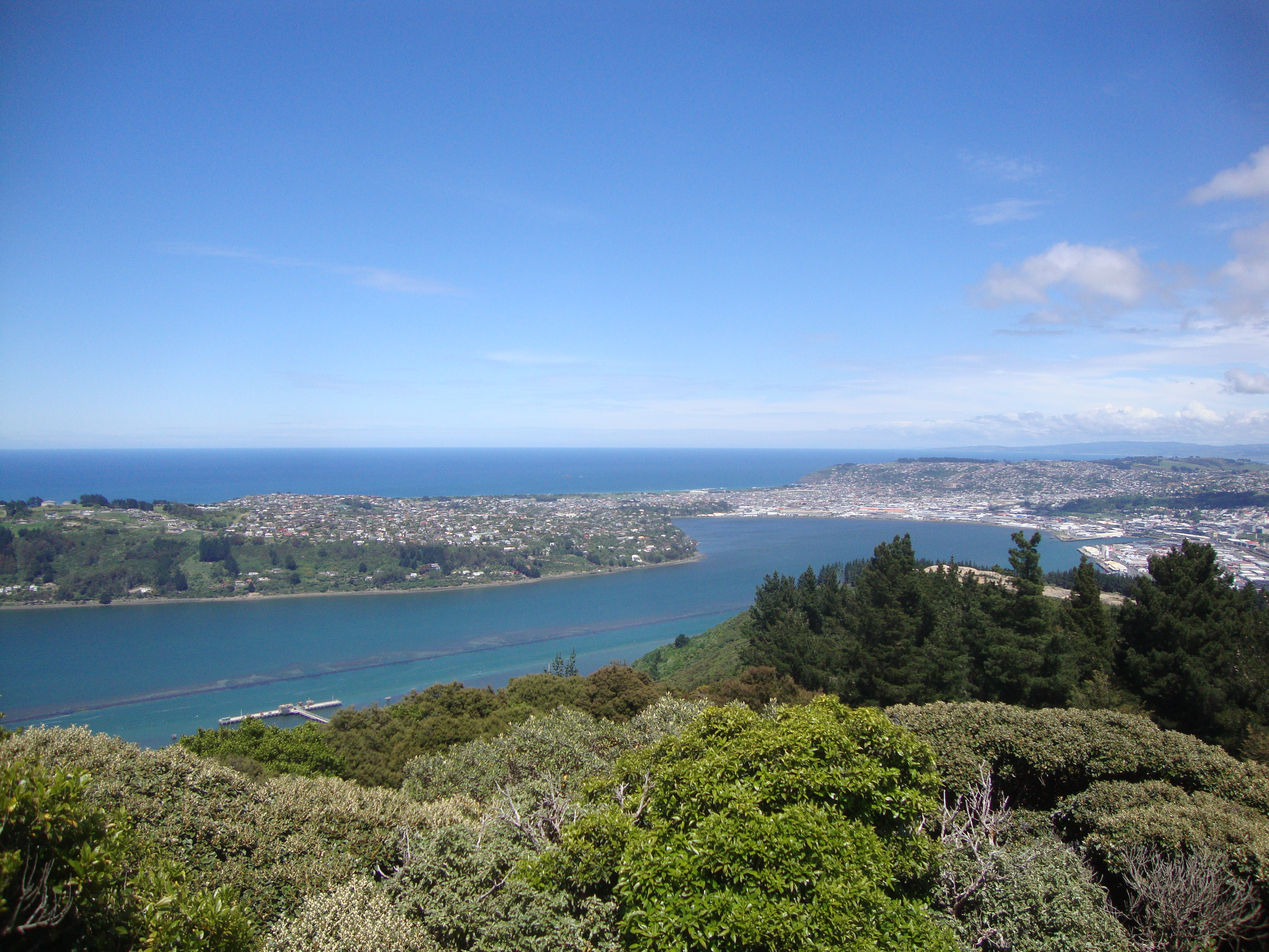 View of Dunedin from Signal Hill